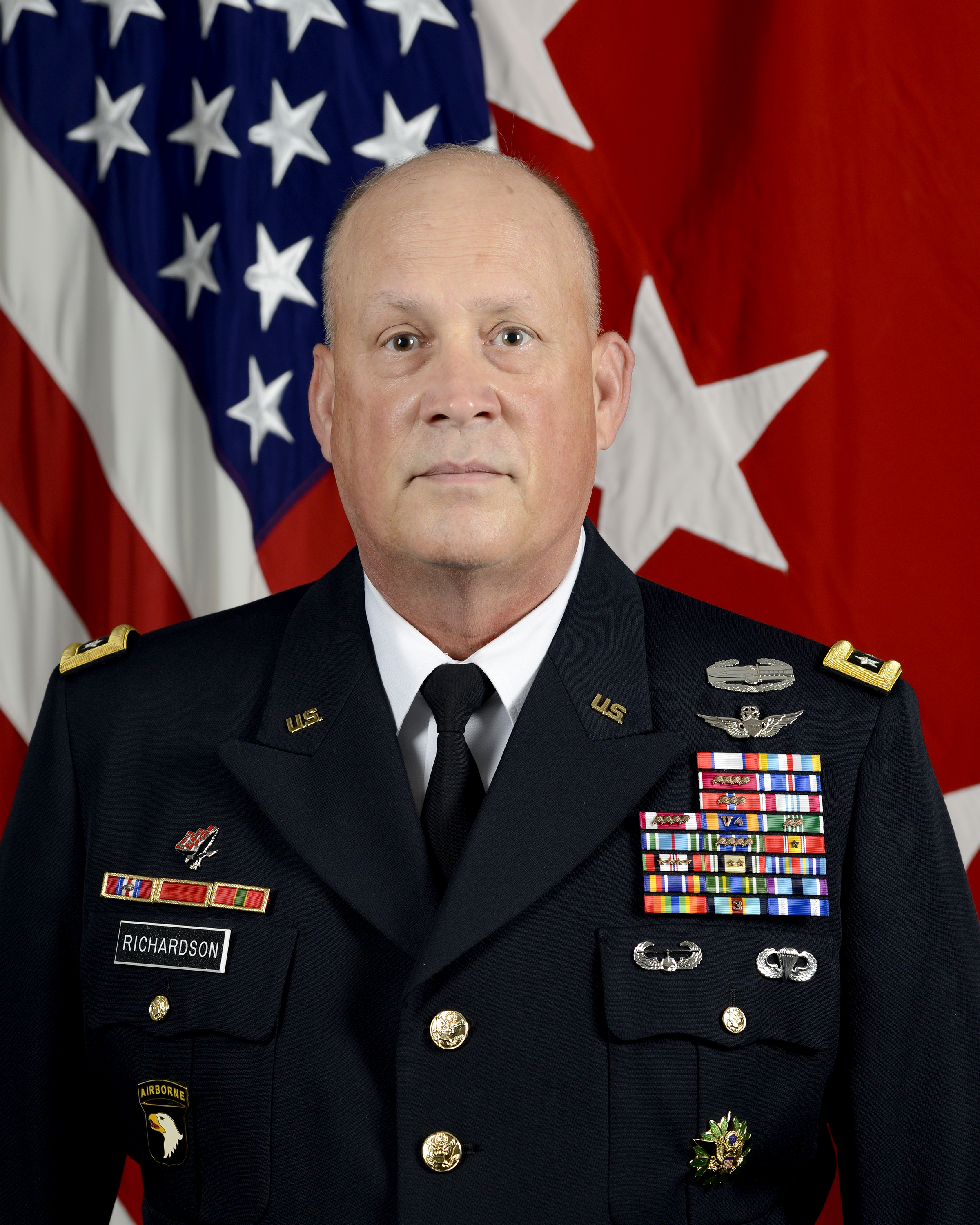 U.S. Army Lt. Gen. James Richardson, Deputy Commanding General U. S. Army Futures Command, poses for his official portrait in the Army portrait studio at the Pentagon in Arlington, Va., Oct. 05, 2018. (U.S. Army photo by William Pratt)